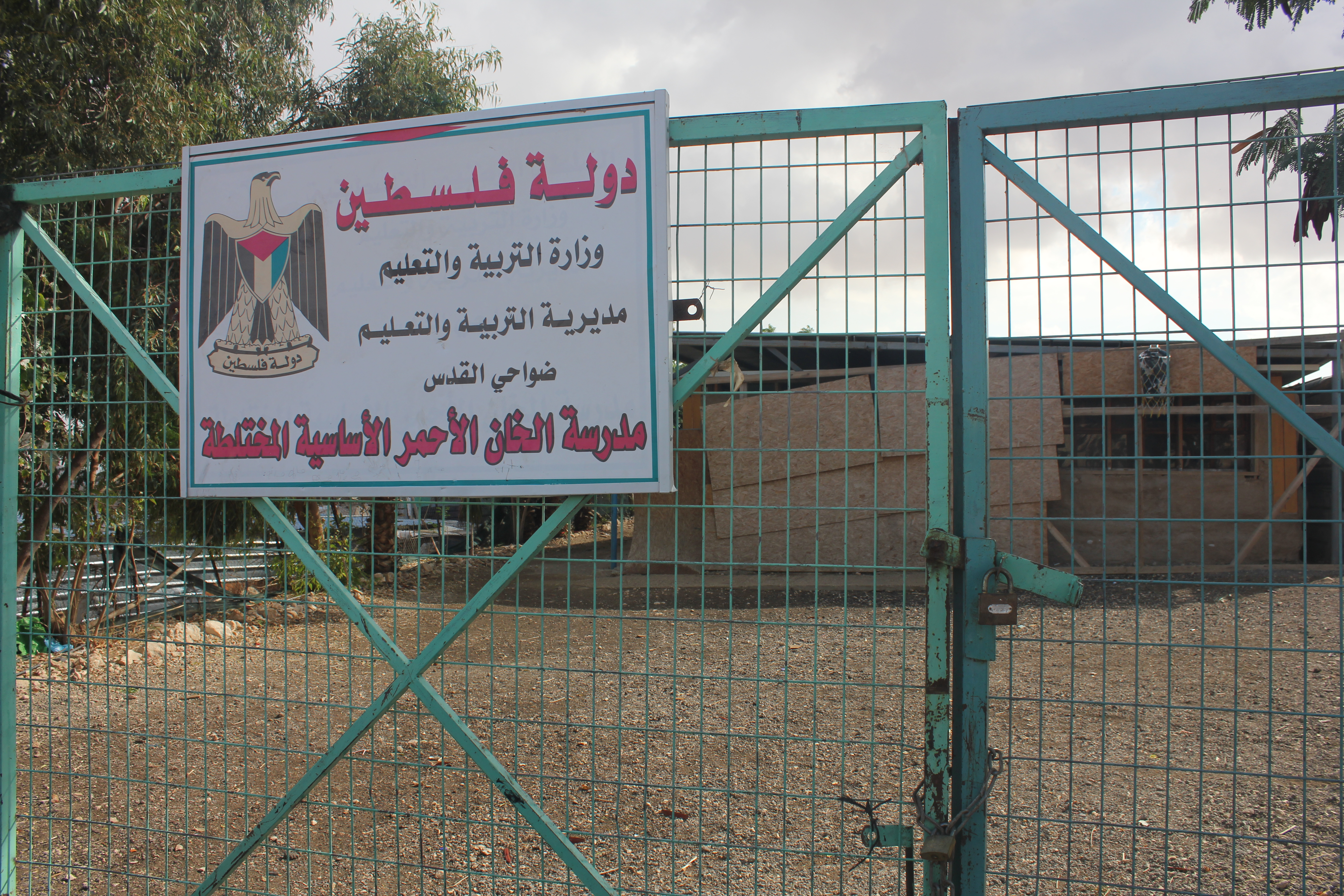 Khan al-Ahmar school